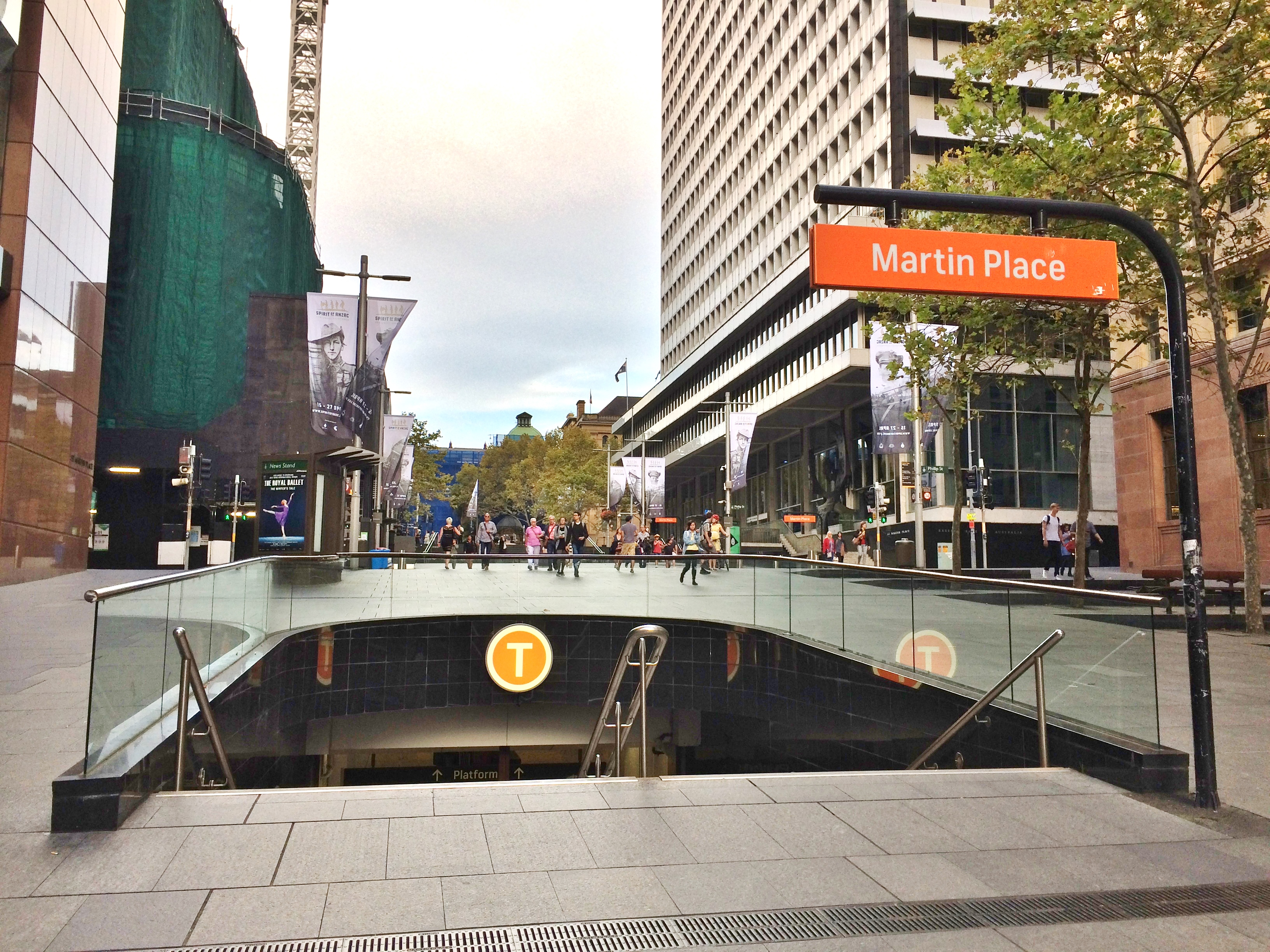 The entrance to Martin Place railway station from Elizabeth Street, the station's recognisable entrance, decorated with a large sign in the Sydney Trains livery, and marked with Transport for New South Wales' "T" signage, denoting the existence of a train station underneath. This April 2017 view depicts the scene around the station on the afternoon of Easter Sunday, with public transport services limited and activity in the city at a minimum. Normally, crowds at Martin Place, a major commercial and business hub in the Sydney CBD, would be somewhat large, though with most places closed for the day, the city's train system can rexlax for a bit.